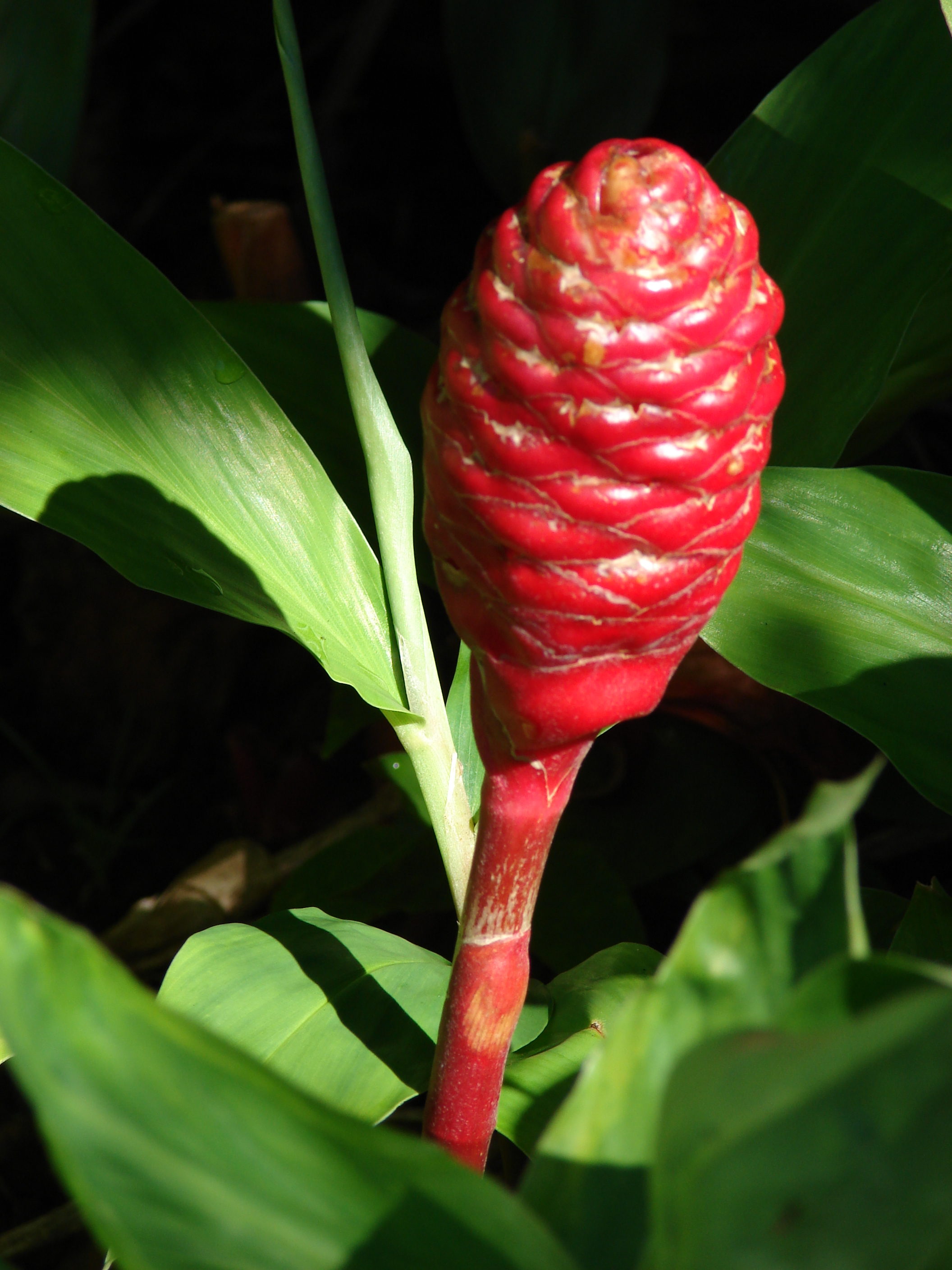 Zingiber zerumbet (flower). Location: Maui, Enchanting Floral Gardens of Kula